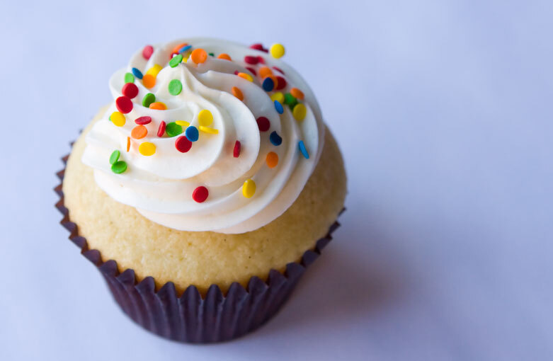 Cupcakes we made last week for a news segment promoting Cupcake Camp Montreal a fundraiser for Kids Help Phone taking place this Sunday. The news segment is now available online! Photos courtesy of Eva Blue.